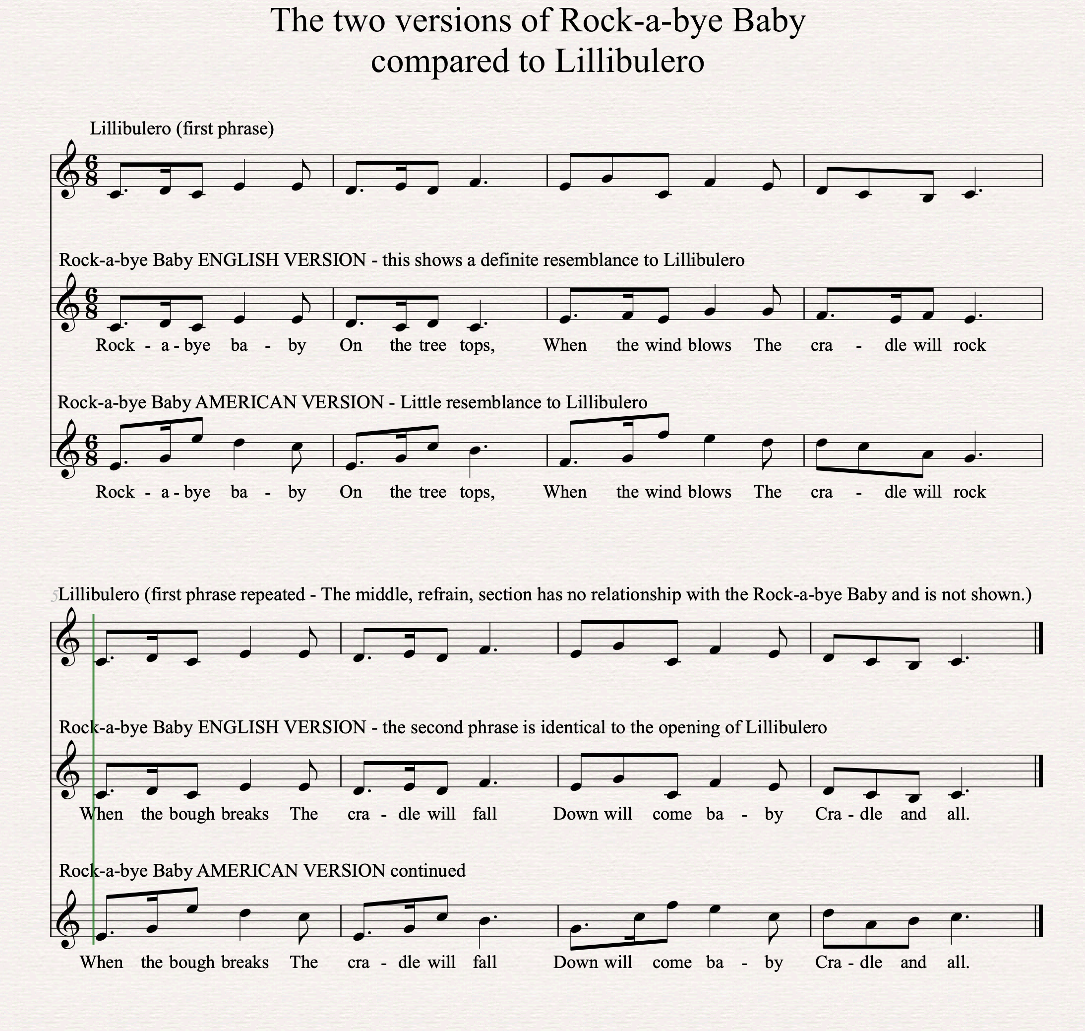 A comparison of the two melodies for Rock-a-bye Baby with Lillibulero